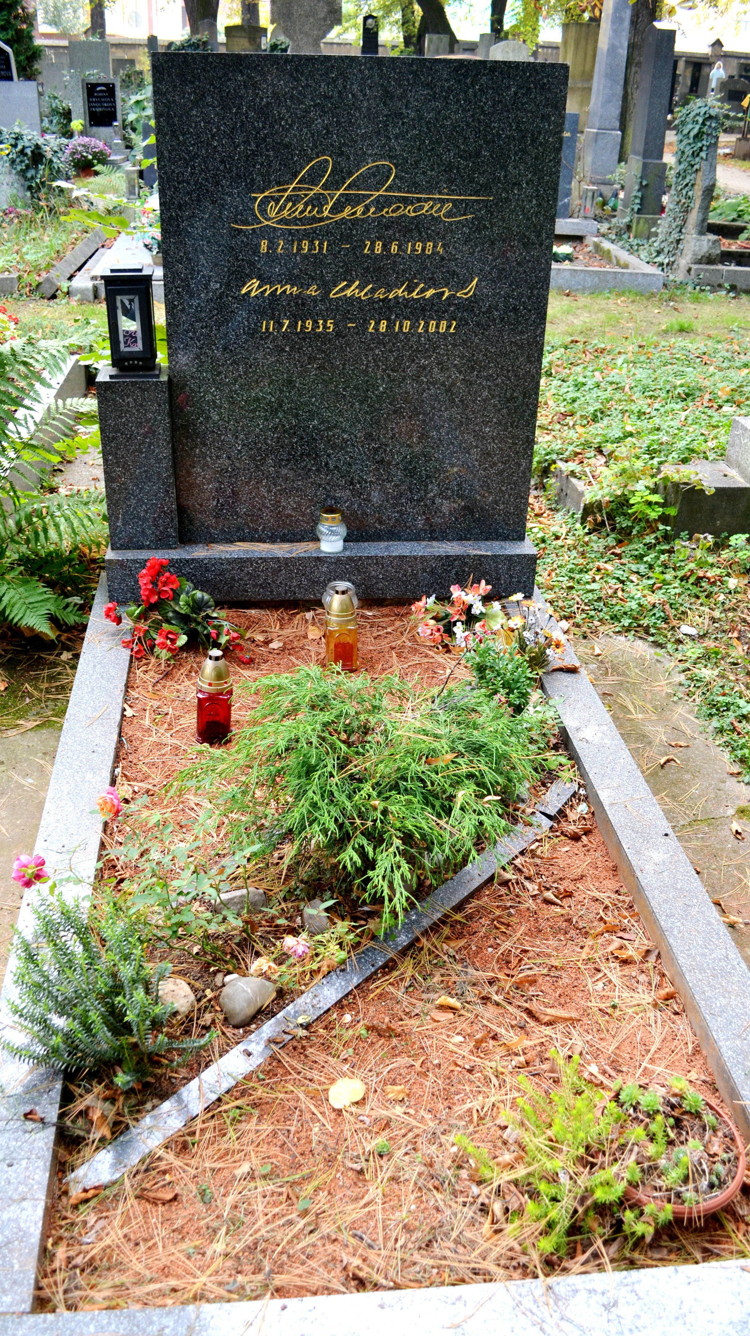 Tomb of Milan Chladil, Czech vocalist, at Střešovice Cemetery in Prague 6